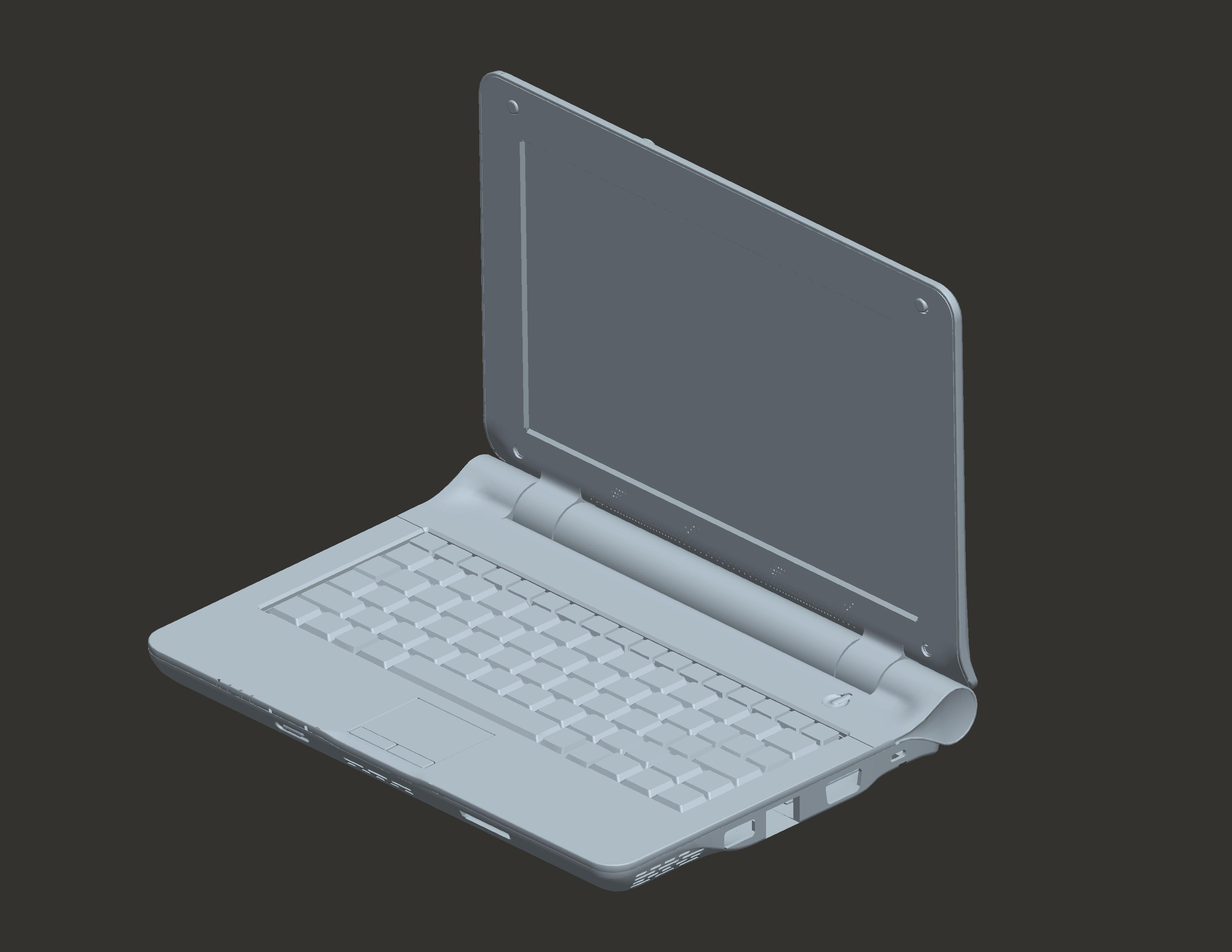 VIA OpenBook (CAD file image)